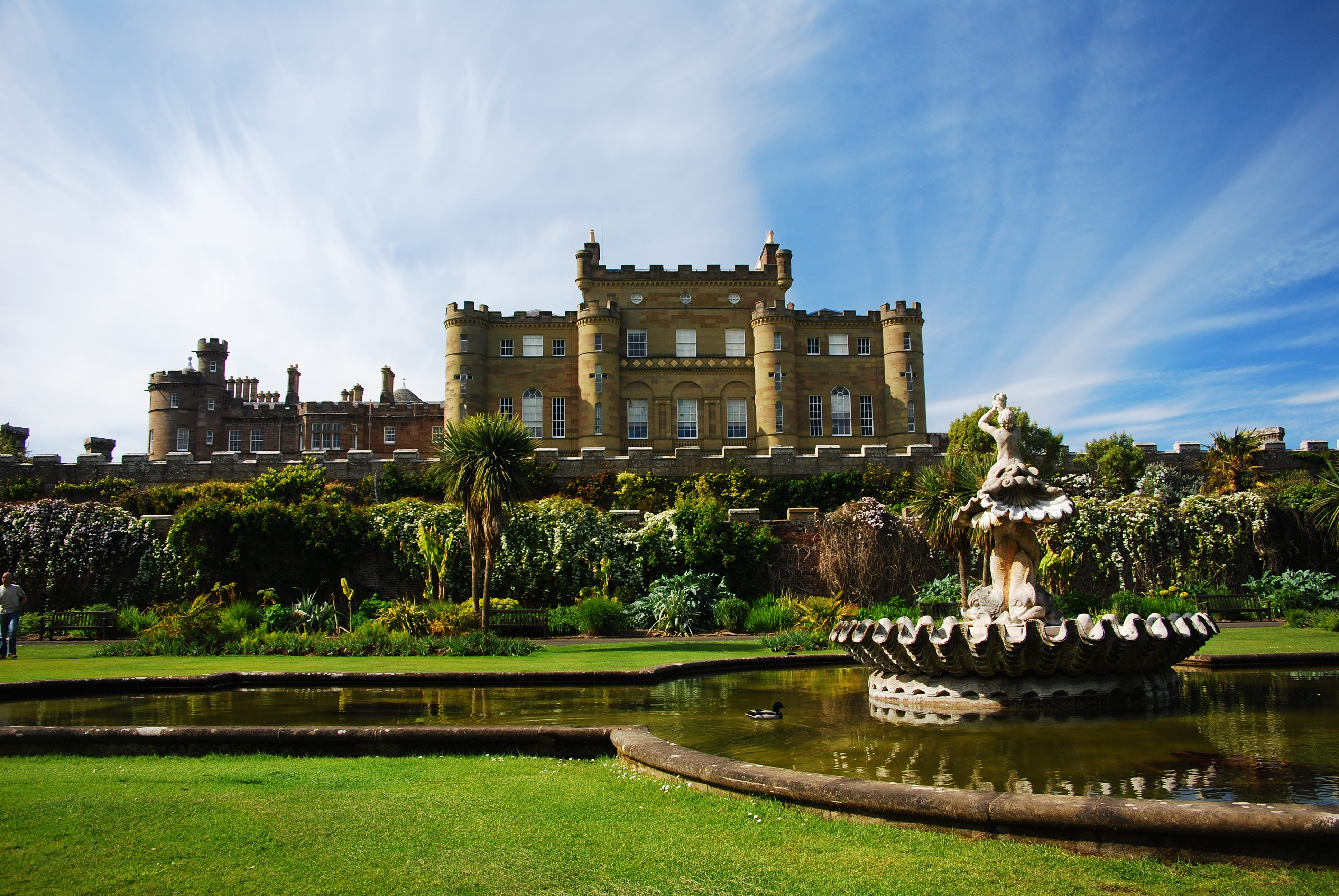 Culzean Castle, Scotland